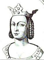 Adelaide of Aquitaine